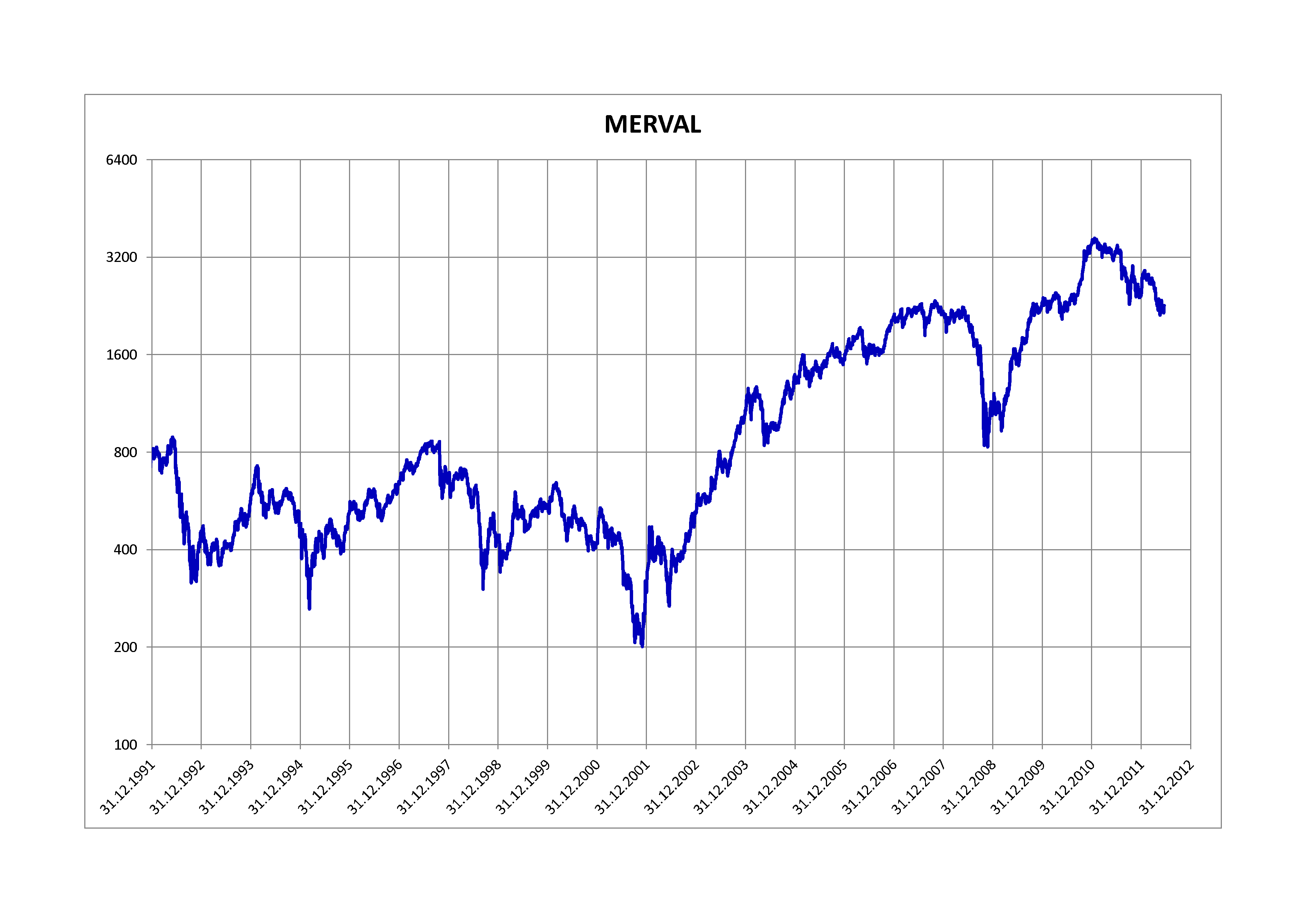 MERVAL from December 1991 to June 2012 (daily closings)